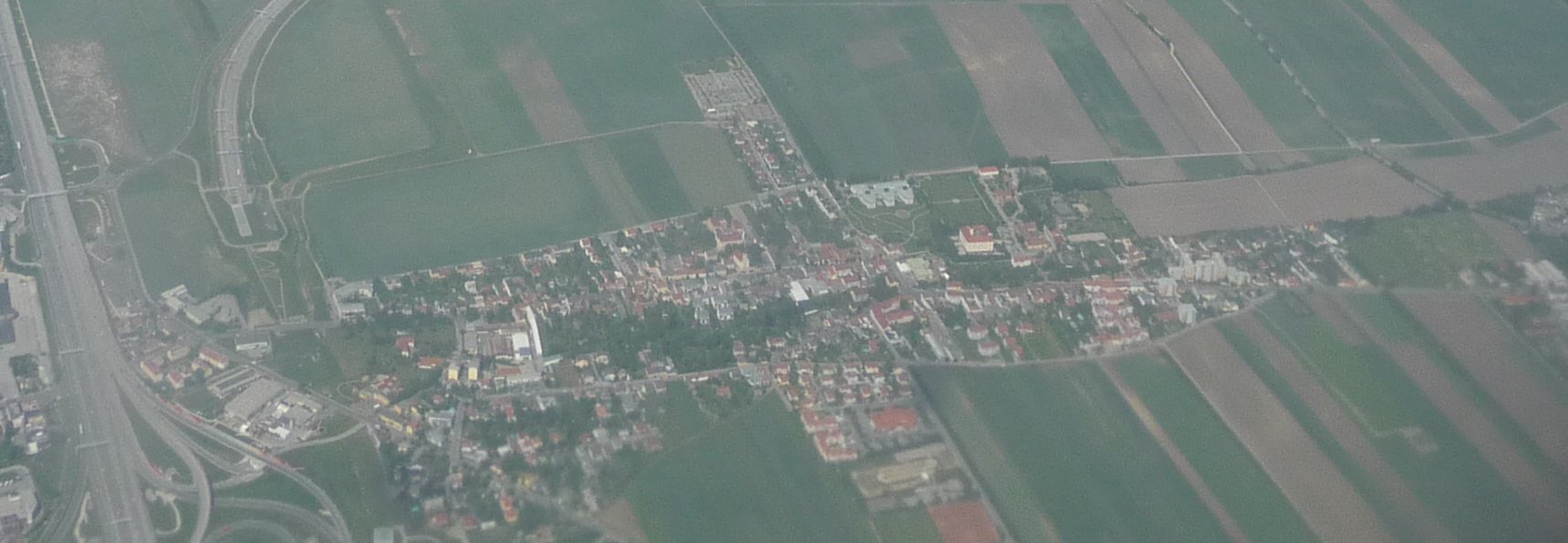 Vienna by Air